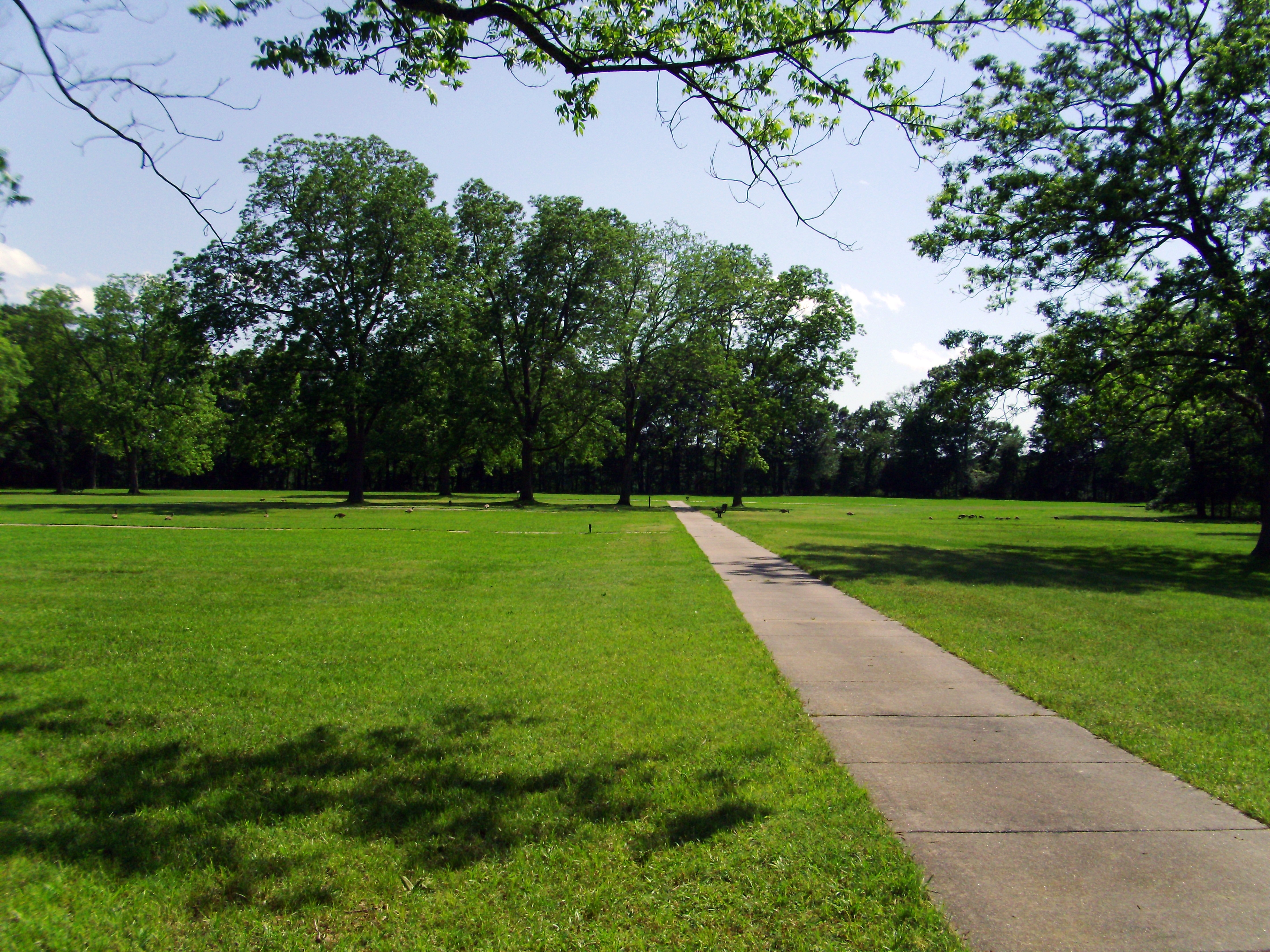 Old town site of Arkansas Post